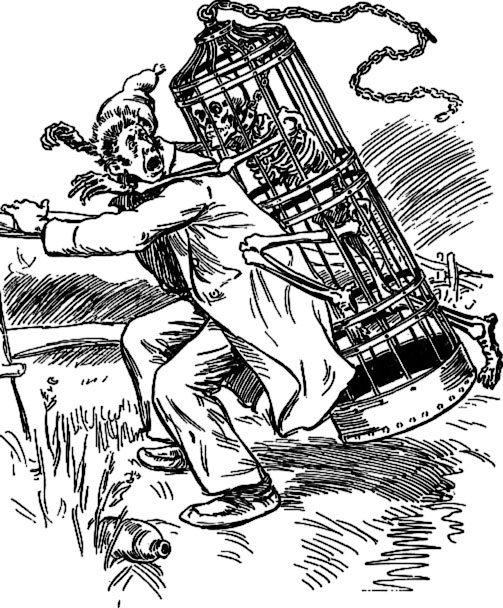 François Dubé with "La Corriveau". Sketch by Henri Julien (1852-1908) for Les Anciens Canadiens by Philippe Aubert de Gaspé.